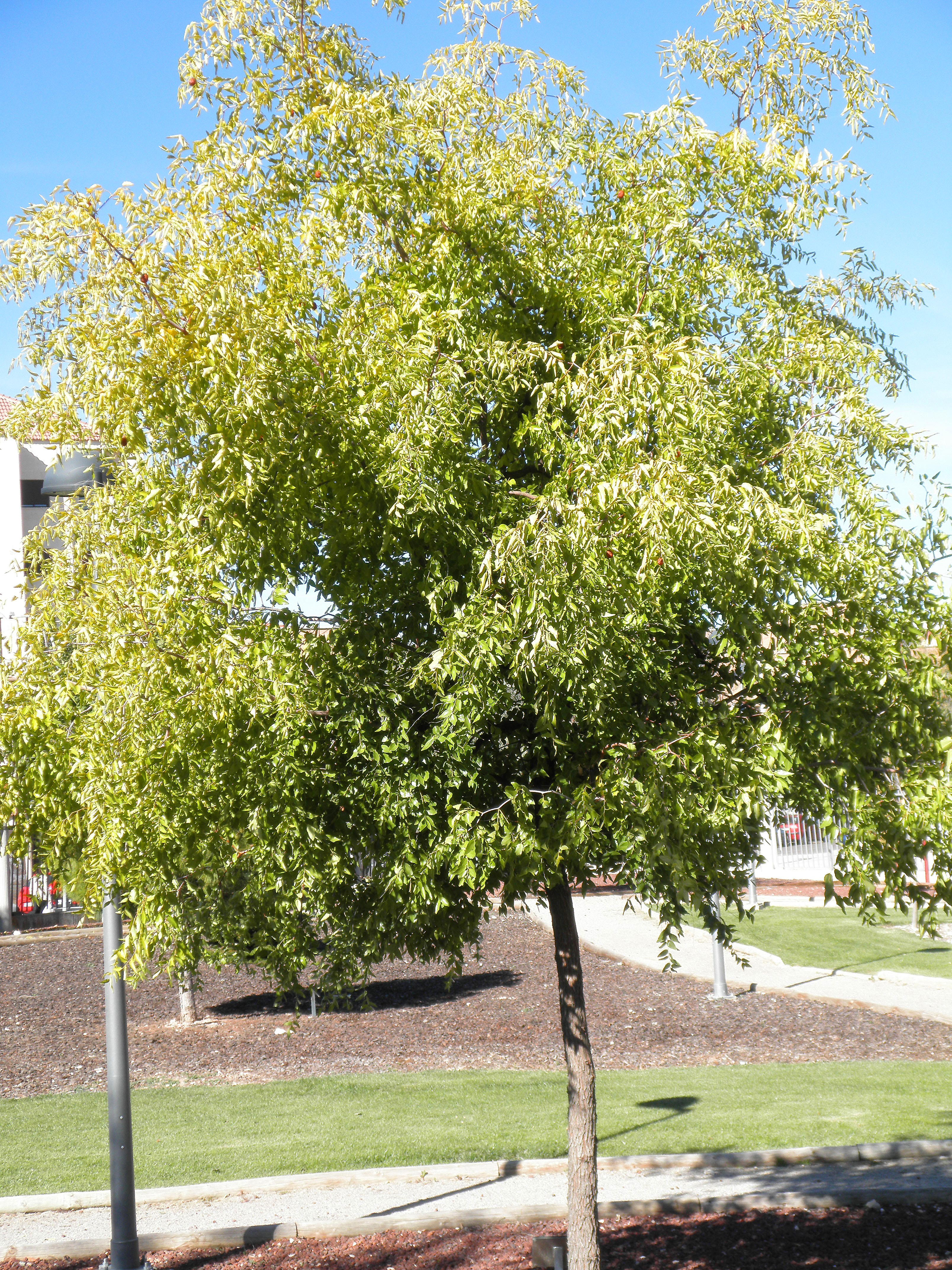 Ziziphus jujuba habit, Parque El Pilar de Ciudad Real, Spain